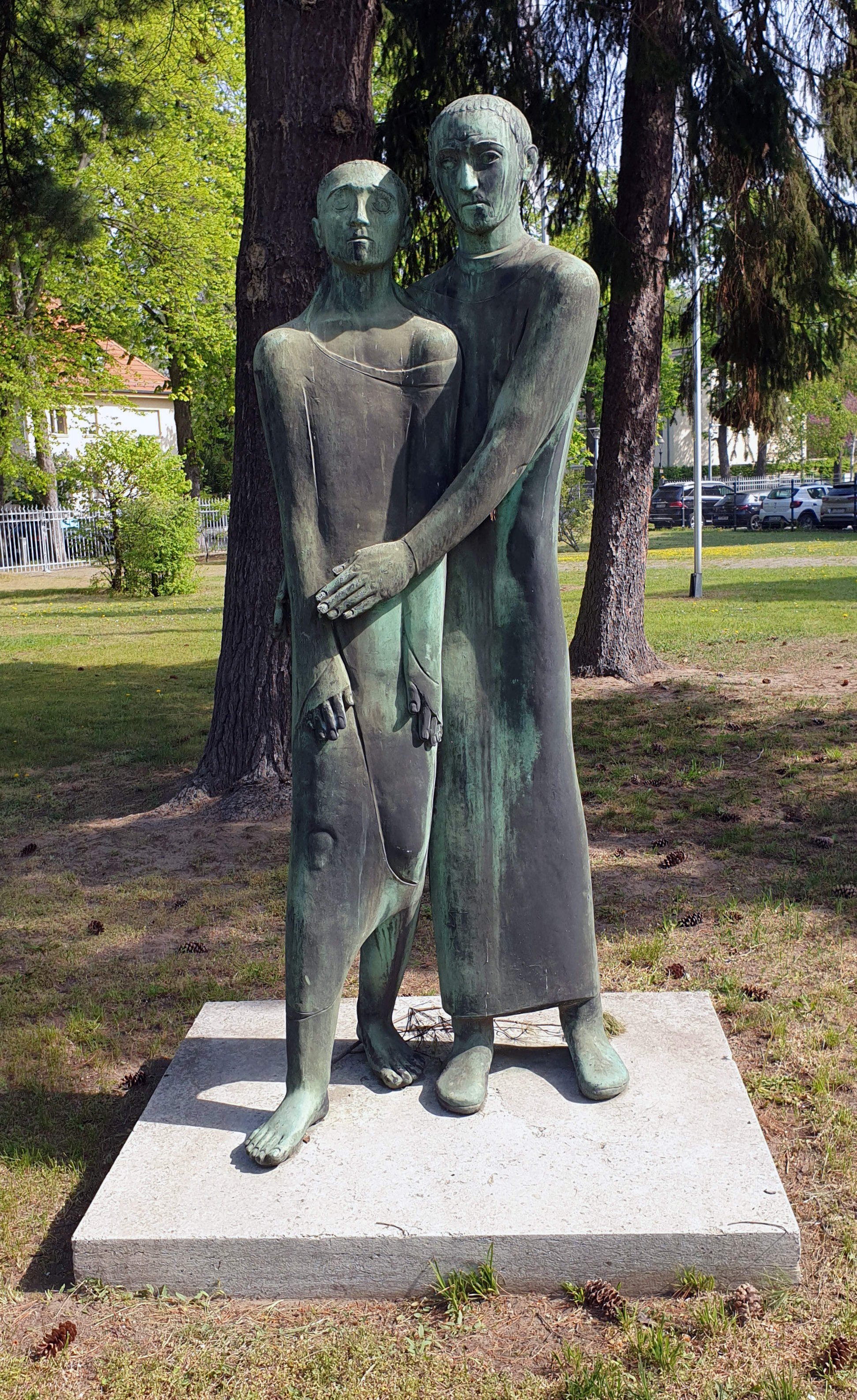 Statue, "Samariter", Carstennstraße 58, Berlin-Lichterfelde, Germany